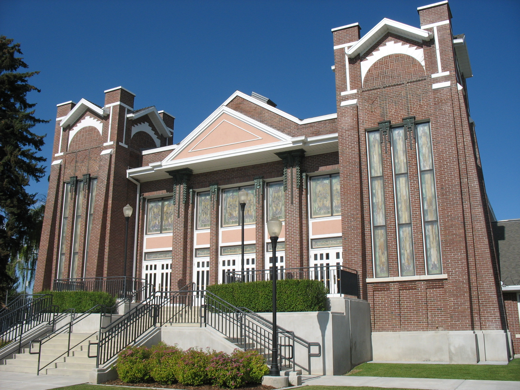 The Garland Tabernacle, an early meetinghouse of The Church of Jesus Christ of Latter-day Saints in Garland, Utah, United States.